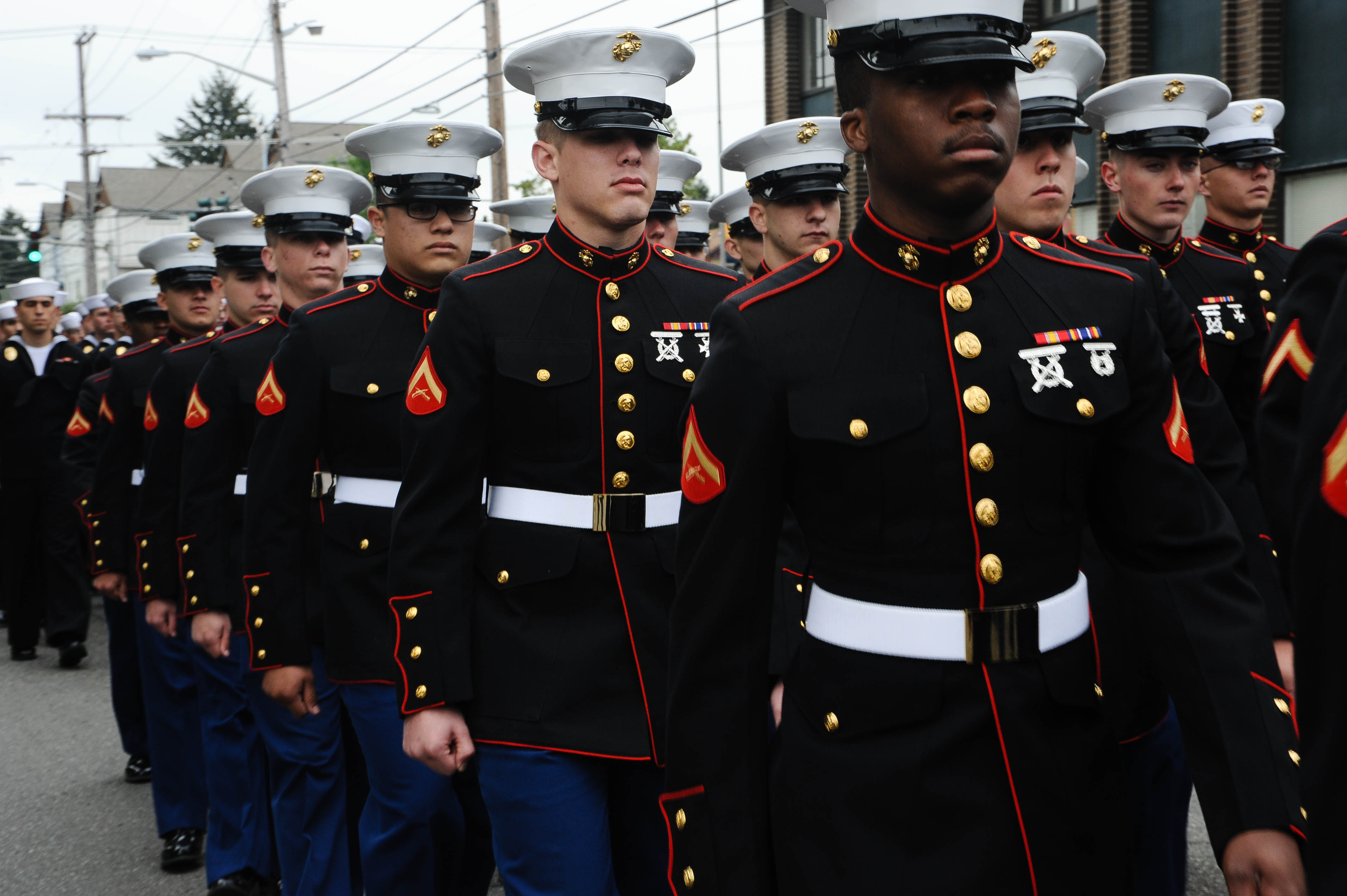 150516-N-KD696-099 BREMERTON, Wash. (May 16, 2015) -- Sailors and Marines from Naval Base Kitsap-Bangor march through the streets of Bremerton during the Armed Forces Day Parade. The Armed Forces Festival is the nation’s largest and longest running Armed Forces Day Parade. (U.S. Navy Photo by Mass Communication Specialist 2nd Class Jose L. Hernandez/Released) Unit: Navy Media Content Services DVIDS Tags: Armed Forces; Bremerton; Navy; NMCS; DVIDS Bulk Import; Day Parade